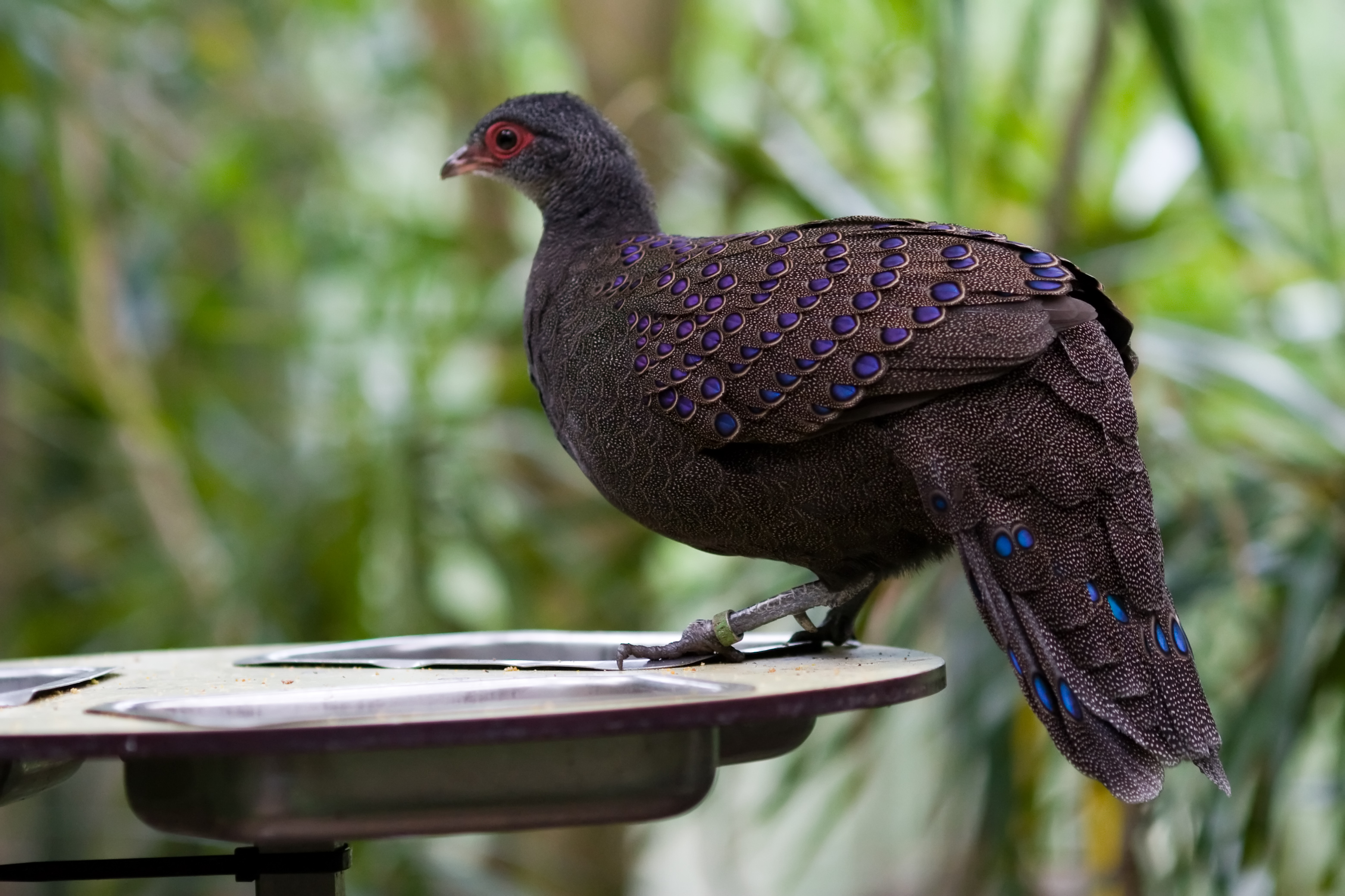 Germain's Peacock-pheasant at Diergaarde Blijdorp (Foundation Royal Zoo of Rotterdam), The Netherlands.